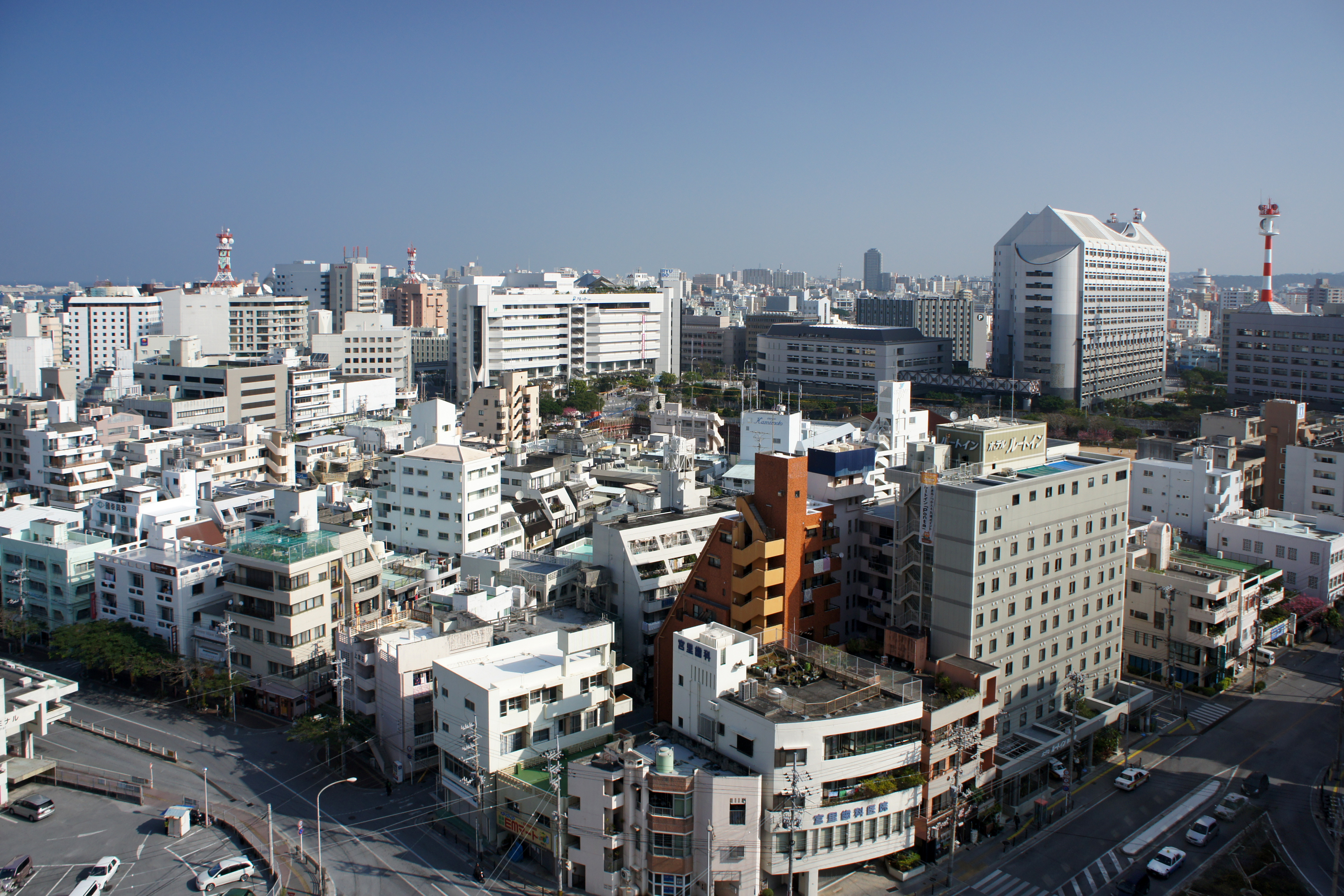 Naha city view from Asahi-machi, Naha, Okinawa prefecture, Japan